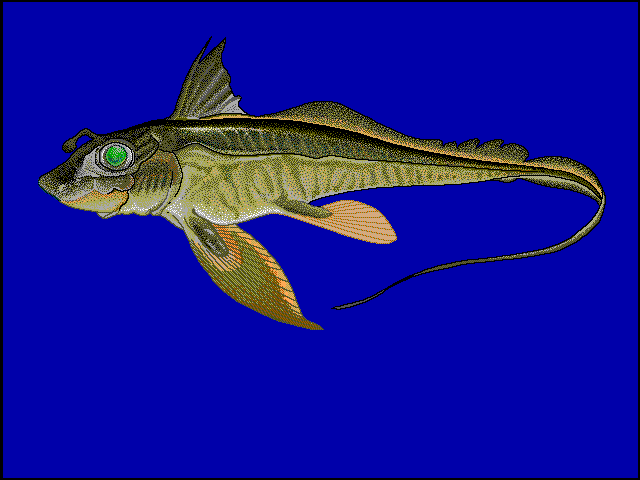 Chimaera monstrosa is a drawing by former FishBase staff member Robbie N. Cada. Drawings done by Robbie Cada are public domain and can be used freely, however, FishBase would appreciate a proper indication of the source.